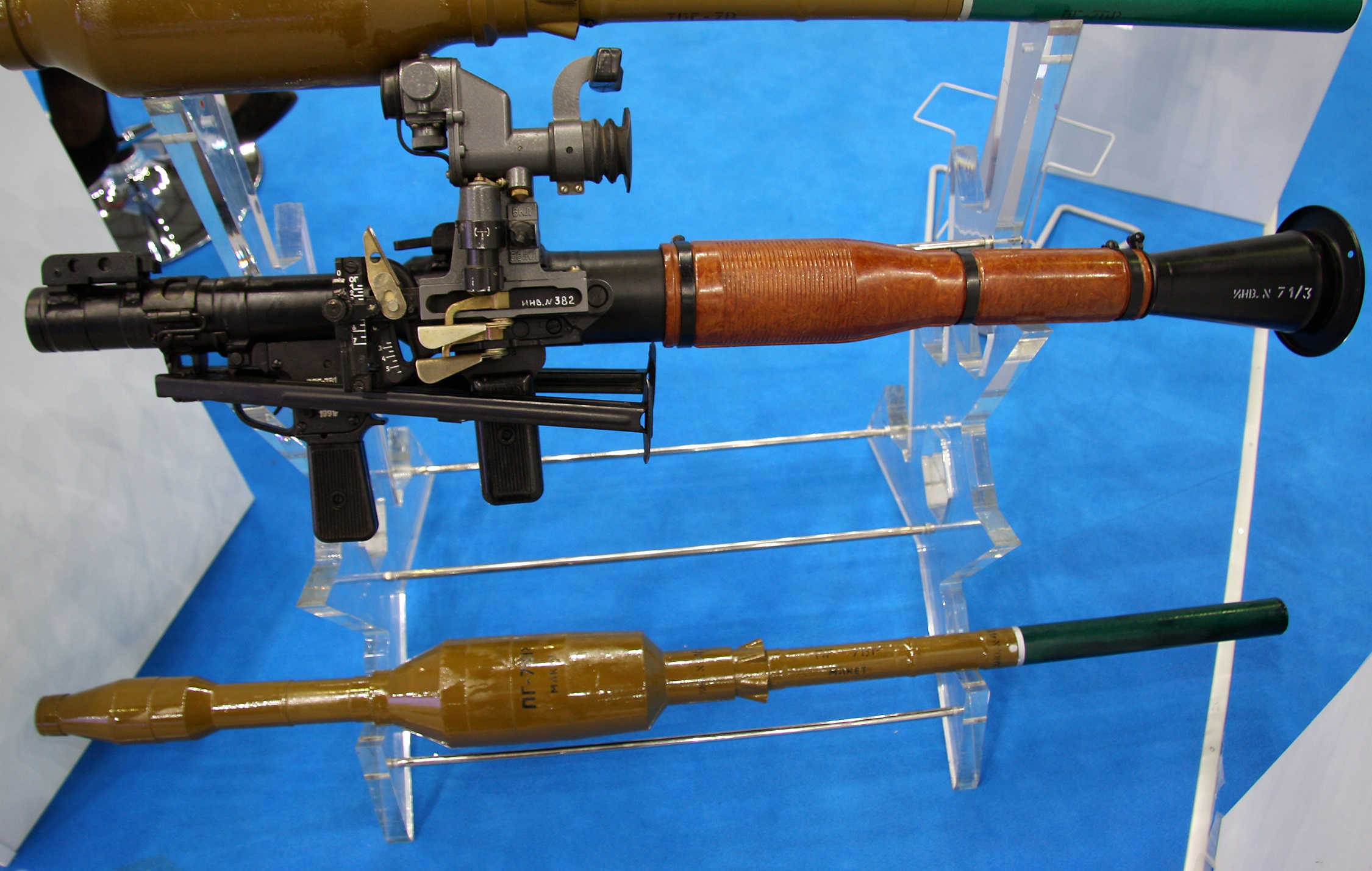 RPG-7 with PG-7VR tandem charge warhead